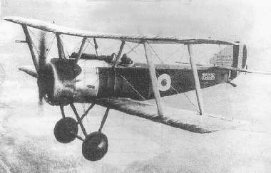 Sopwith Pup